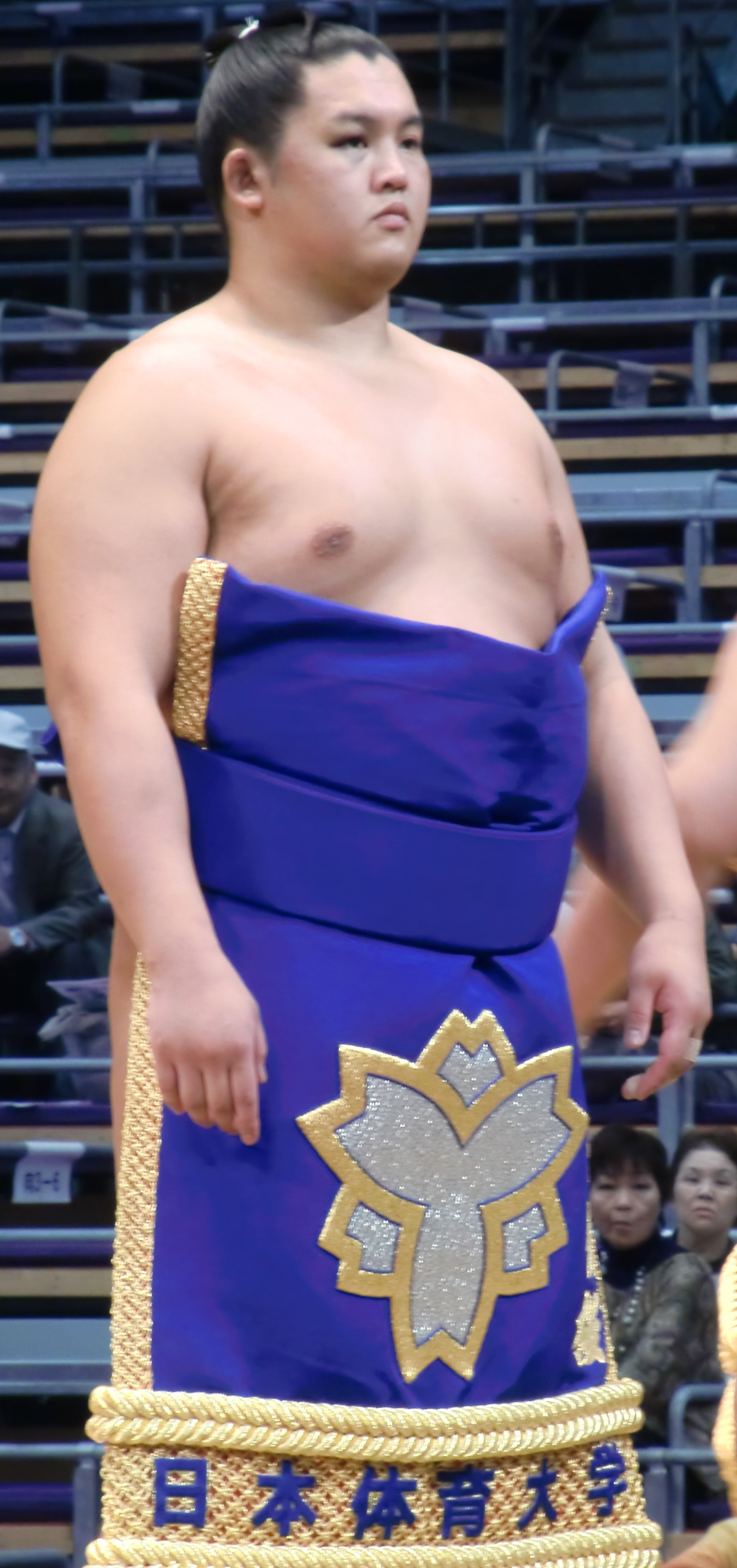 taken at Nov 2011 tournament